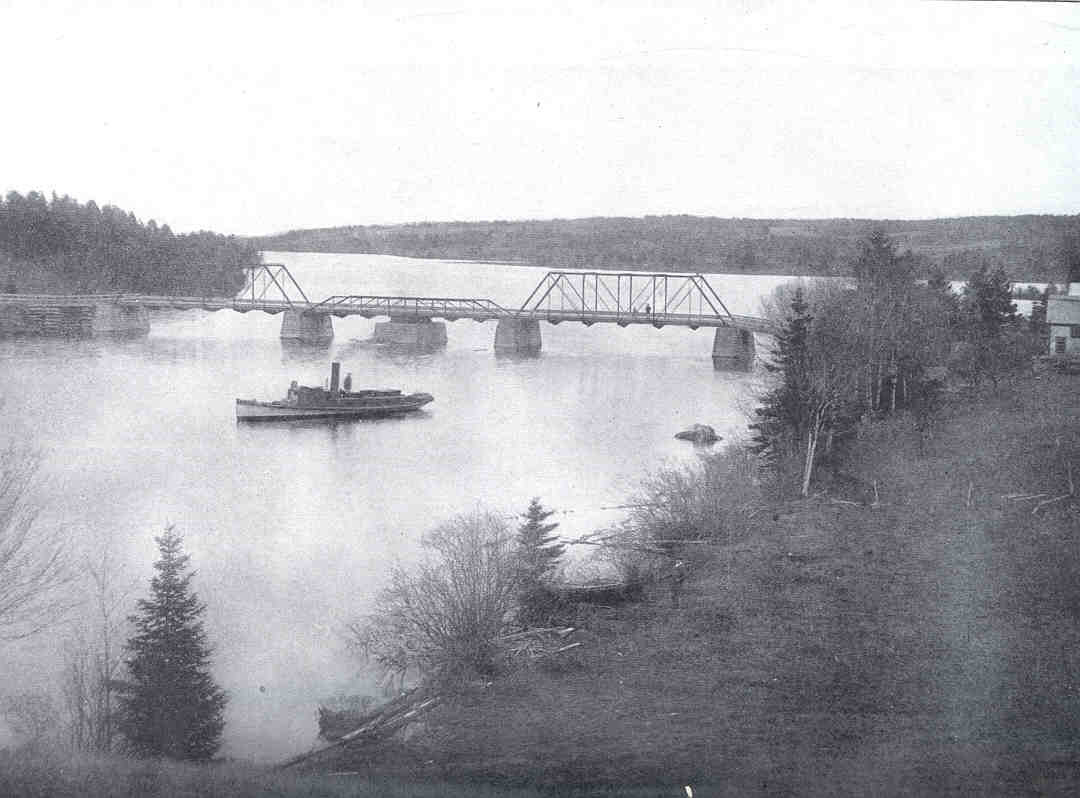 Marion Bridge, Where the Cape Breton Railway Corsses the Mira River Subject: Mira River (Cape Breton Island, Nova Scotia), Steamboats, Railroad bridges Geographic Subject: Canada--Nova Scotia--Cape Breton Island Tag: Limnology, Vessels